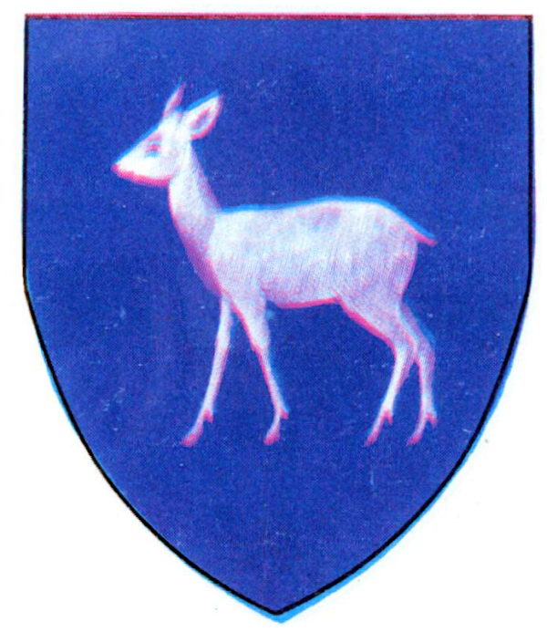 Interwar coat of arms of Dâmbovița County, Kingdom of Romania.